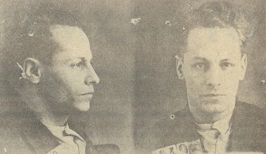 Ali Nazim (arrested)